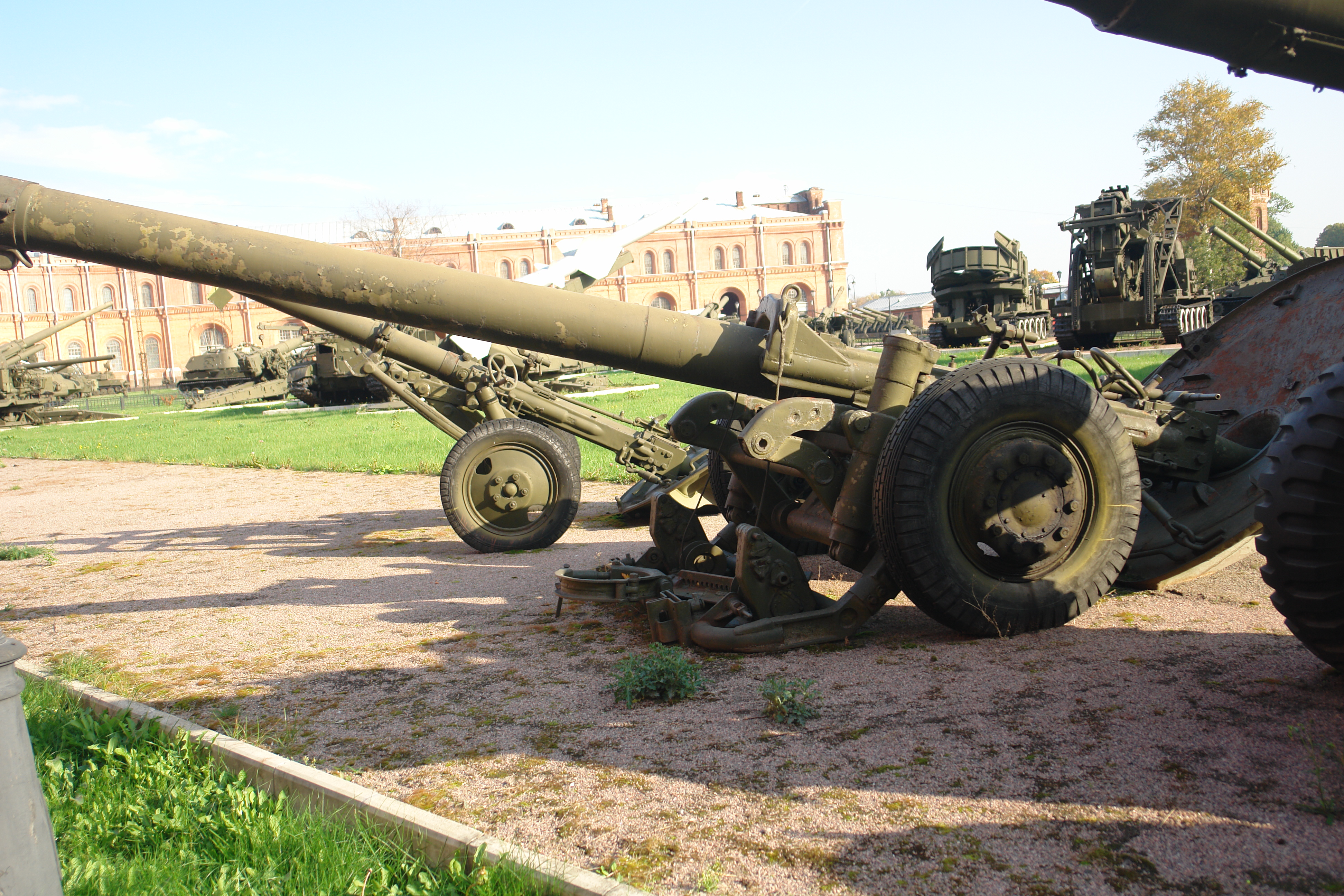 240 mm mortar model M-240 (year 1950). Main constructor B.I.Shavyrin. Range - up to 9700 m. Firing speed: 1 mine/minute. Mass (kg): mortar - 3610, mine - 131. Military-historical museum of artillery, engineers, and military communication, Sankt-Petersburg (former Leningrad, Petrograd), Russia.